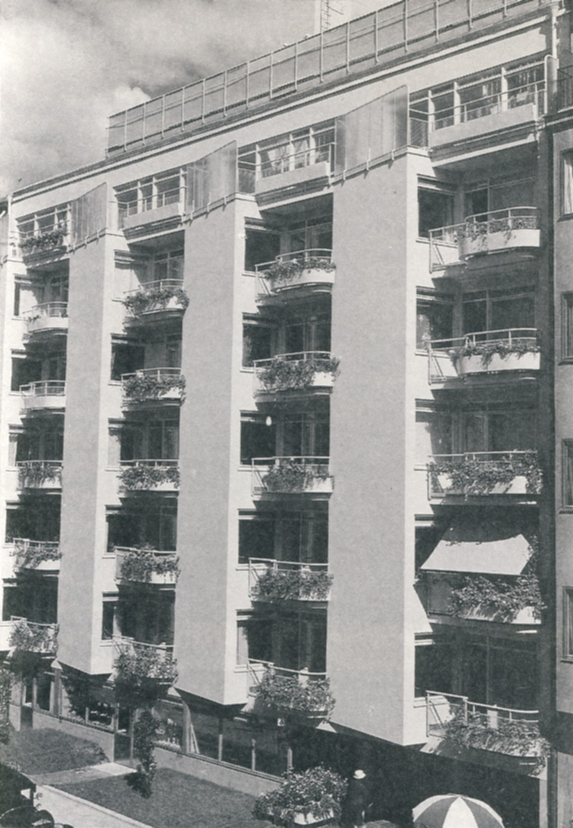 Kollektivhus Markelius, by Swedish modernist architect Sven Markelius, 1936.